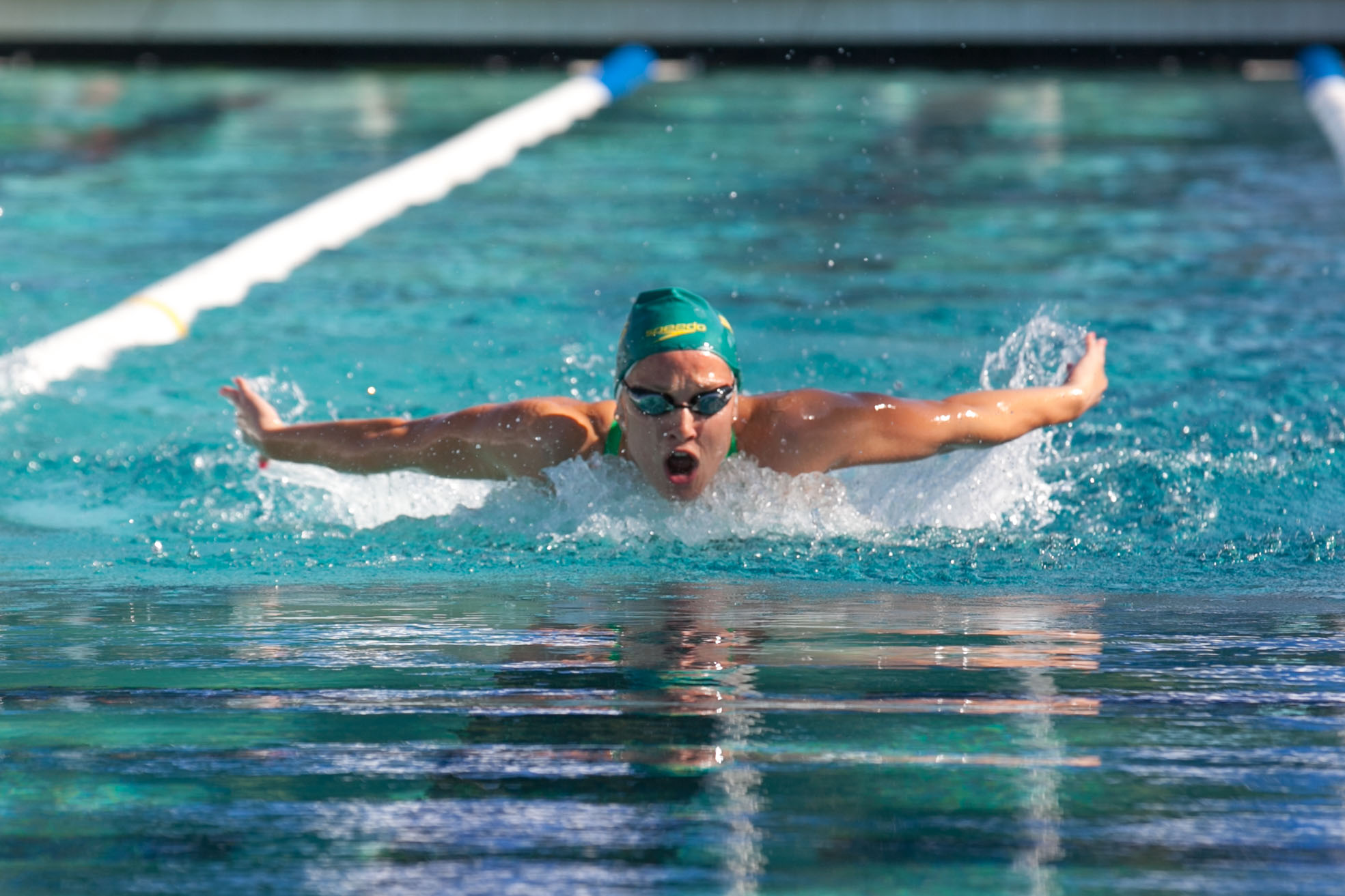 At the 2016 Santa Clara Arena Grand Prix. Noncommercial use only. Must credit: JD Lasica/Cruiseable